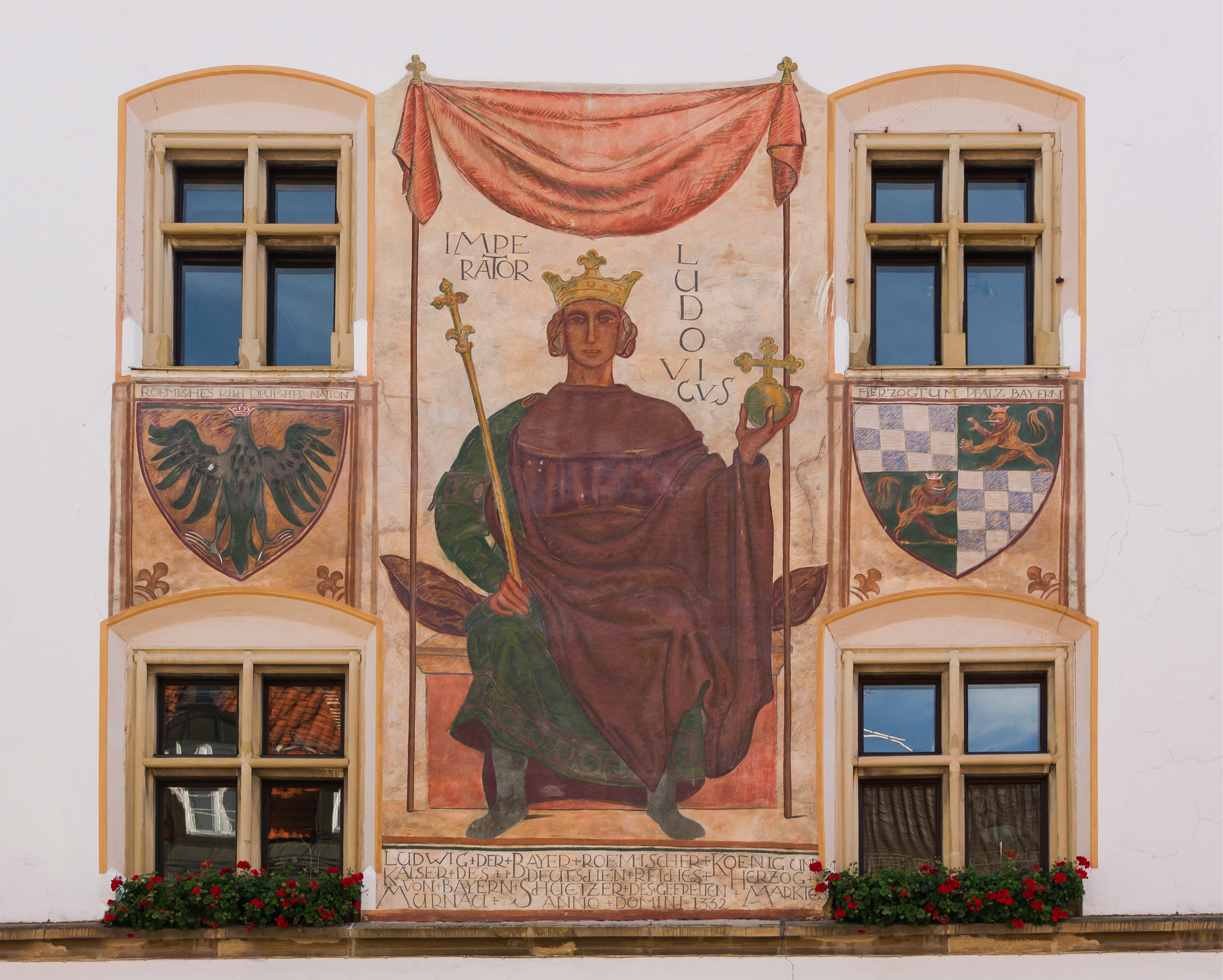 Fresco of Emperor Ludovicus, Murnau am Staffelsee Town hall, Bavaria, Germany.